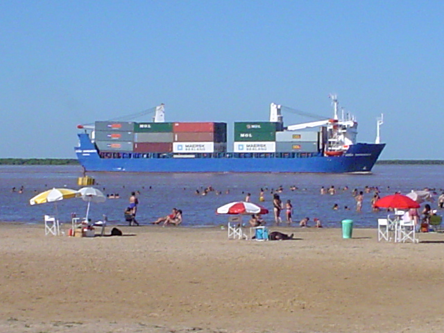 Deep Water Container Ship traveling downstream on the Parana River by the City of Ramallo, Province of Buenos Aires, Argentina.